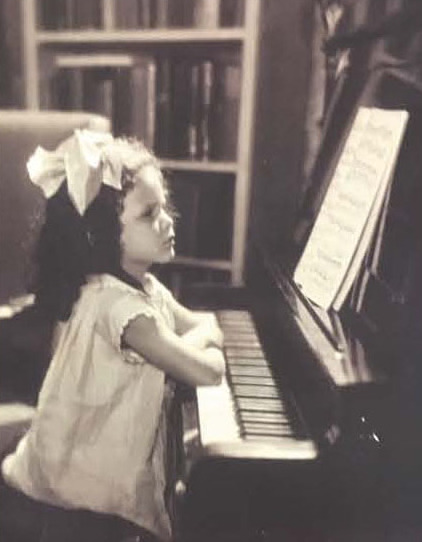 Photo of the young Jeanne Bamberger